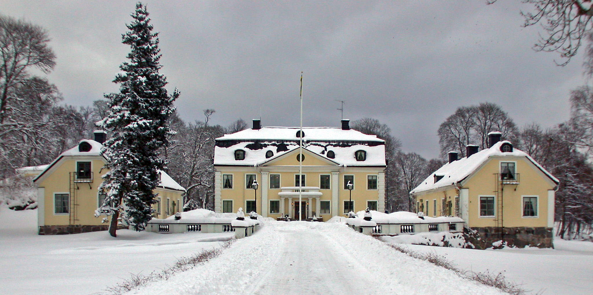 Swedish castle Skebo bruk, Sweden. Photo: Riggwelter, March 5, 2006